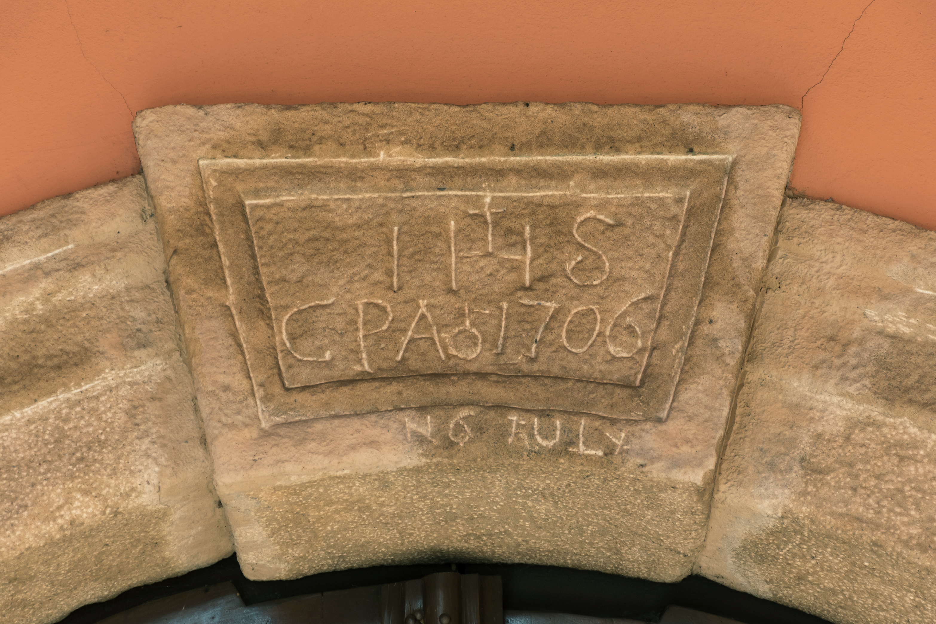 3 Market Square in Nowa Ruda